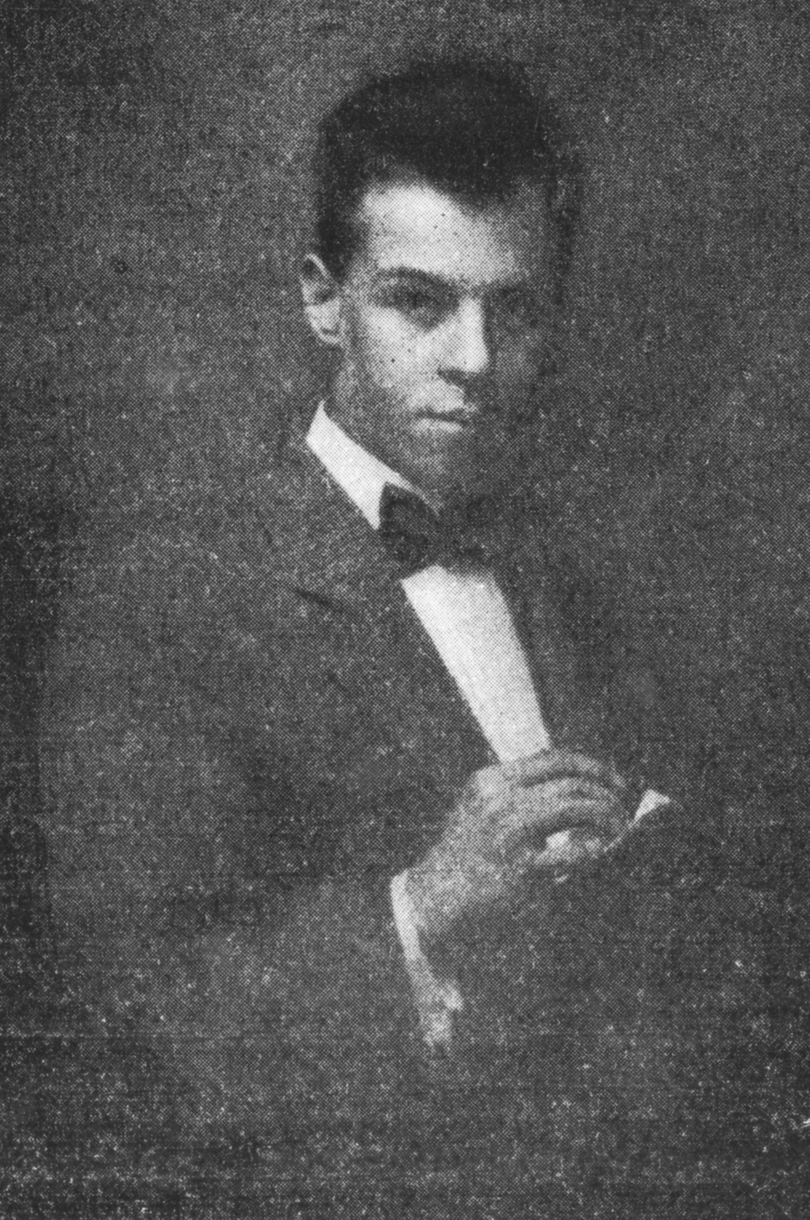 Lawrence Ambrose Hayter in c. 1910 aged ~16 or 17.